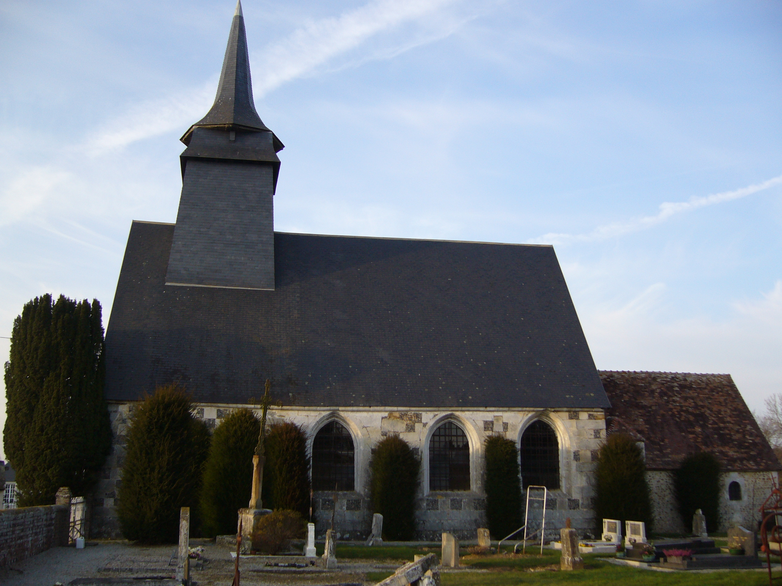 Parrish Church of Saint-Aubin-des-Hayes and Irish Yews, Normandy